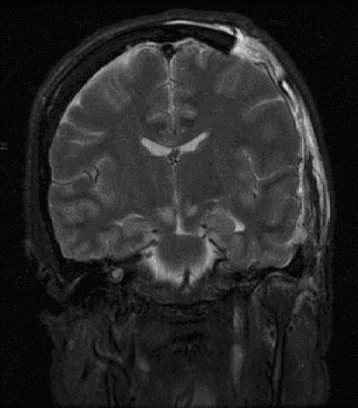 MRI showing injury due to brain herniation in a patient with choriocarcinoma. Caption reads, "Coronal MRI T2 FLAIR sequence showing herniation injury"